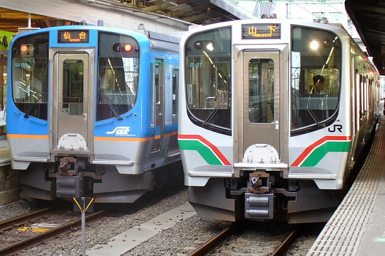 A JR East E721-0 series EMU (right) and SAT721 series EMU (left) at Sendai Station